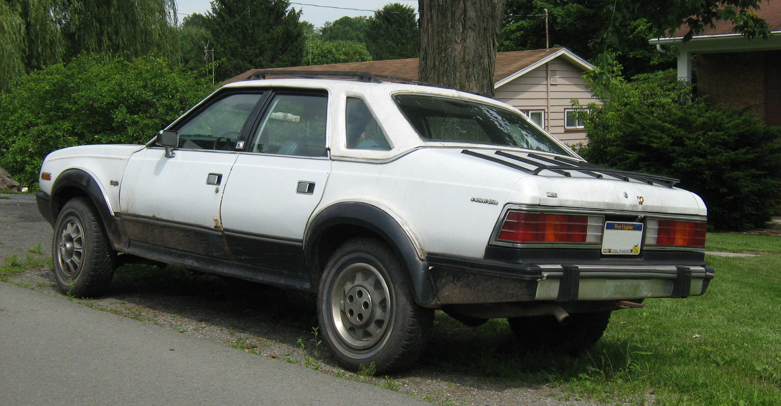 All-wheel-drive AMC Eagle four-door sedan built by American Motors Corporation. In regular service with a West Virginia State tag and a safety inspection sticker on the windshield that is valid through October 2009. Note this is either a 1985, '86, or '87 model - I forgot to check! The trunk-mounted luggage rack was a dealer installed accessory, but there is an additional aftermarket roof rack on this car.